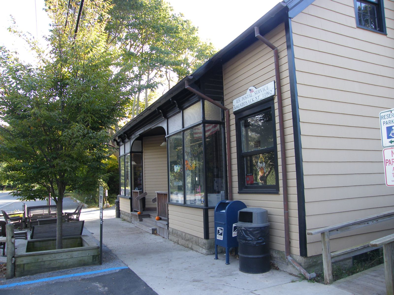 Sagaponack Historic District Southampton New York